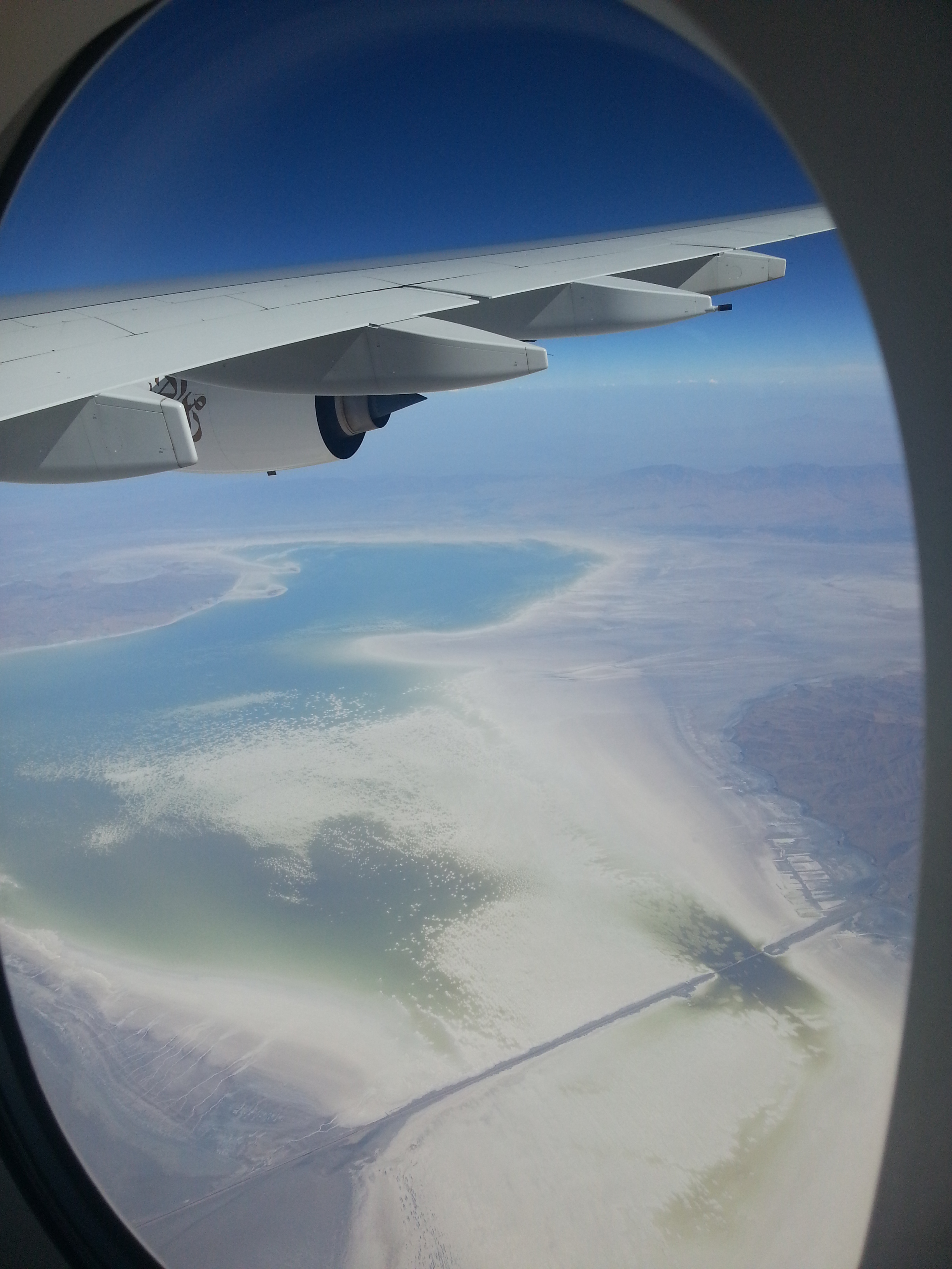 Urmia Lake, NW Iran, September 2015 from Emirates flight EK015